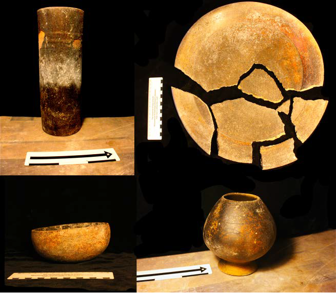 Artifacts found in the Chan Chich archaeological site, courtyard A-3